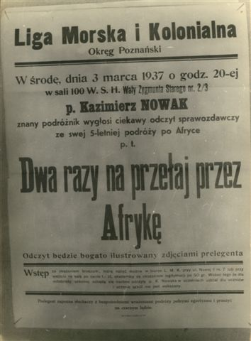 A poster announced the lecture given by Kazimierz Nowak about his travel across Africa (March 1937), says: Leage Colonial and of the Sea Poznań Area __________________________________________ On the wednessday, March 3, 1937, at 8 PM W.S.H room 100, Wały Zygmunta Starego 2/3 Mr. Kazimierz Nowak known traveller will read interesting lecture, report from his 5-years journey through Africa: "Two times across the Africa" Lecture richly-illustrated by his photographs. __________________________________________ ... (more text here) ... __________________________________________ ... translated by IP User 89.74.136.9, taken from Talk:Riaan_Manser